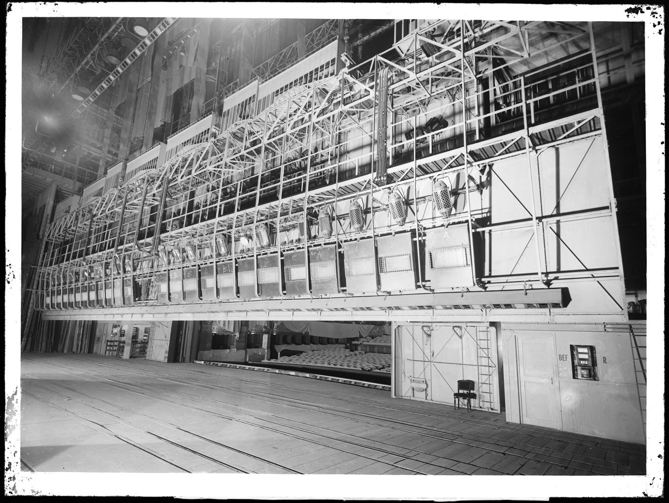 Opéra Garnier - backstage 1937